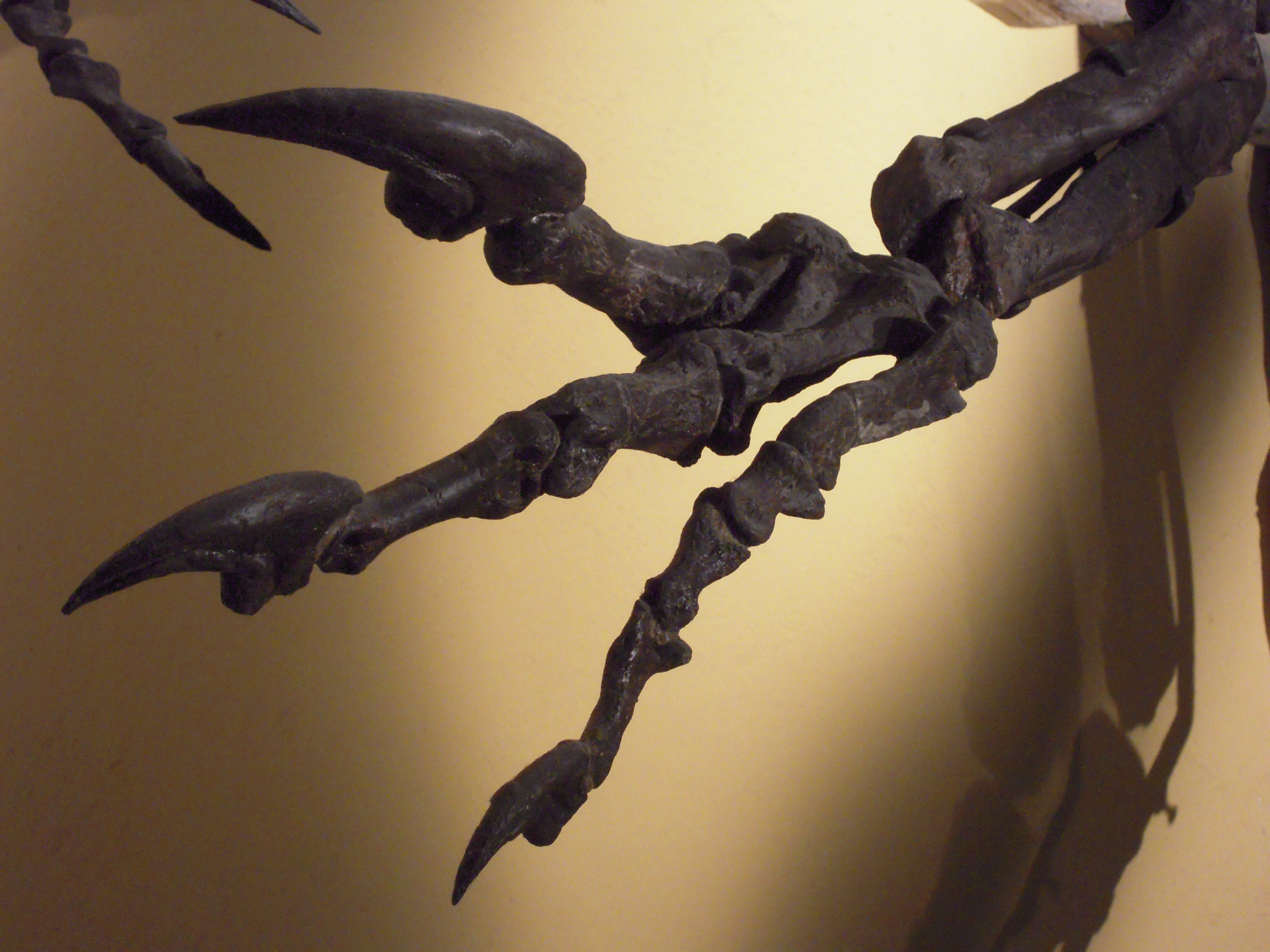 Clutches of an Allosaurus fragilis.